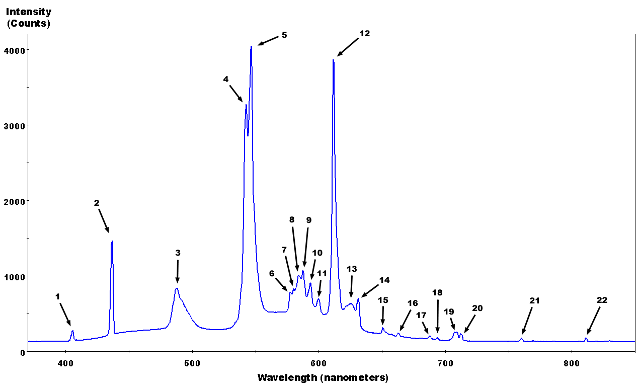 Fluorescent lighting spectrum with emission peaks numbered. Graph of Intensity (counts) vs. Wavelength (nm) in the visible spectrum.